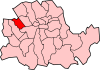 Map of the Metropolitan borough of Paddington County of London.